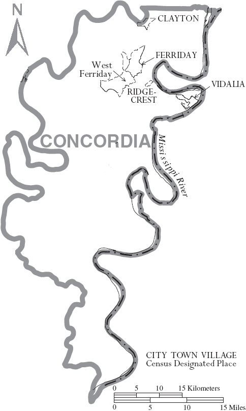 Map of Concordia Parish, Louisiana, United States with municipal boundaries